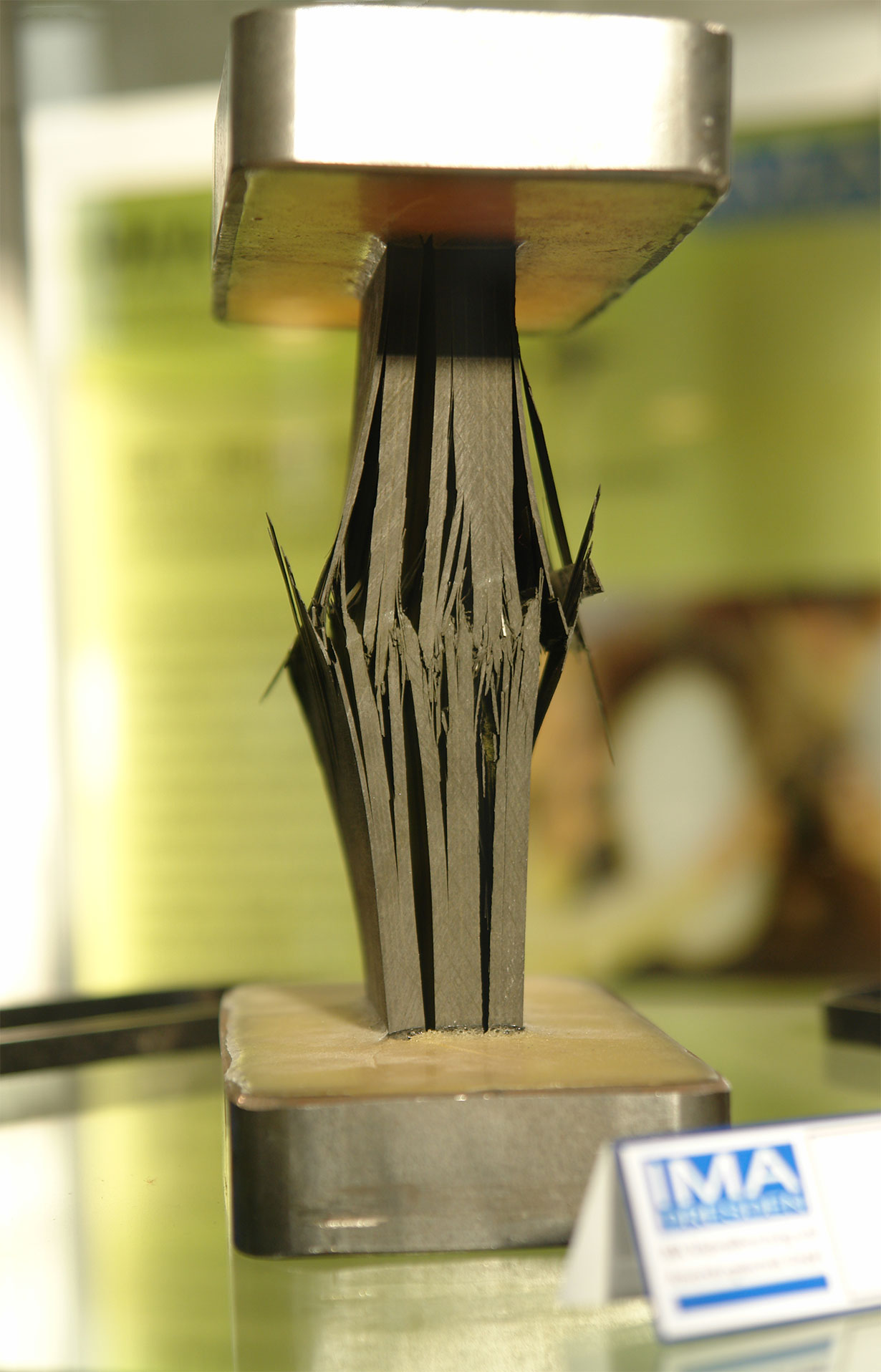 delamination of CFRP